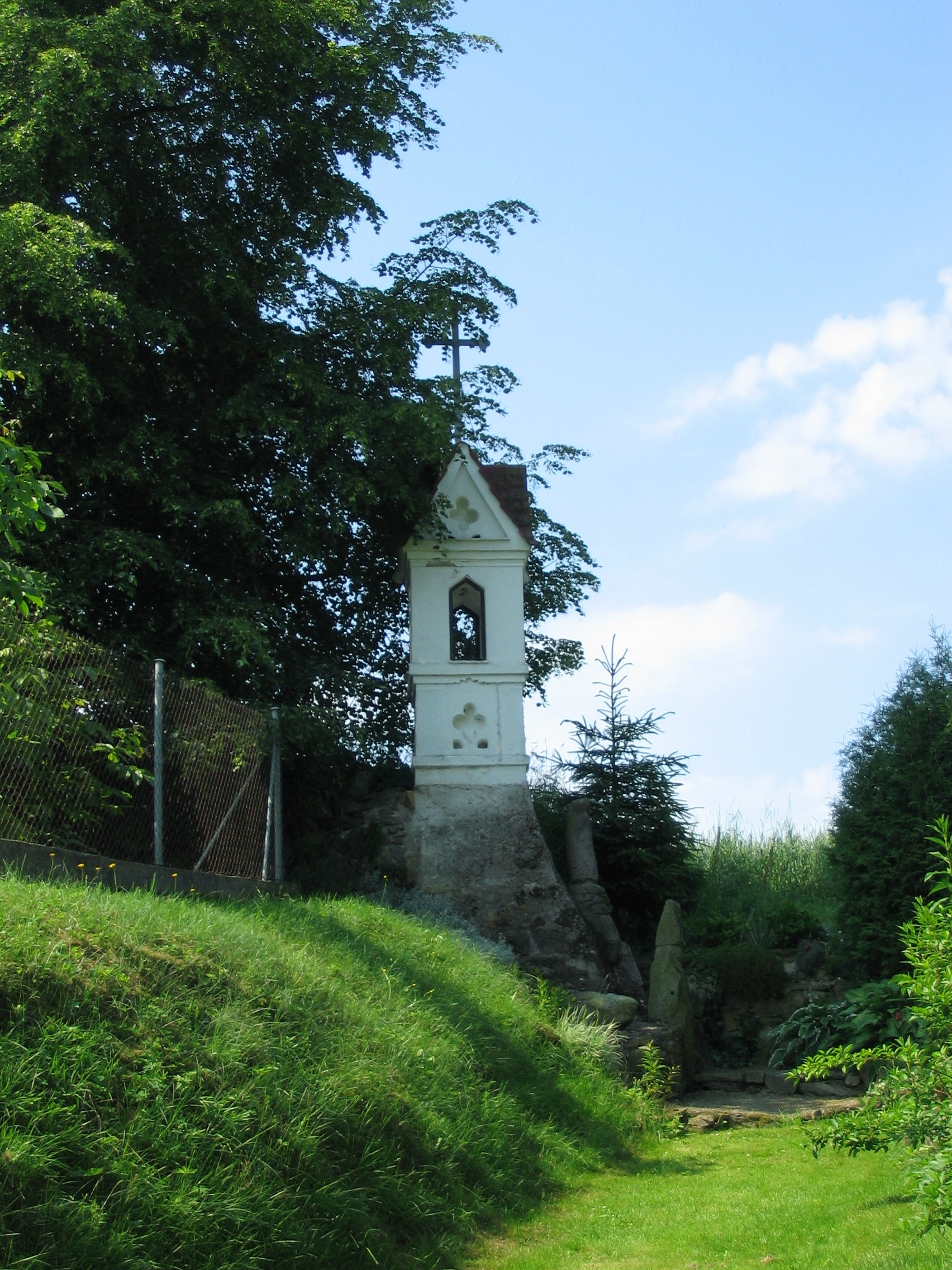 Wayside shrine in Domoraz, Klatovy District, Czech Republic